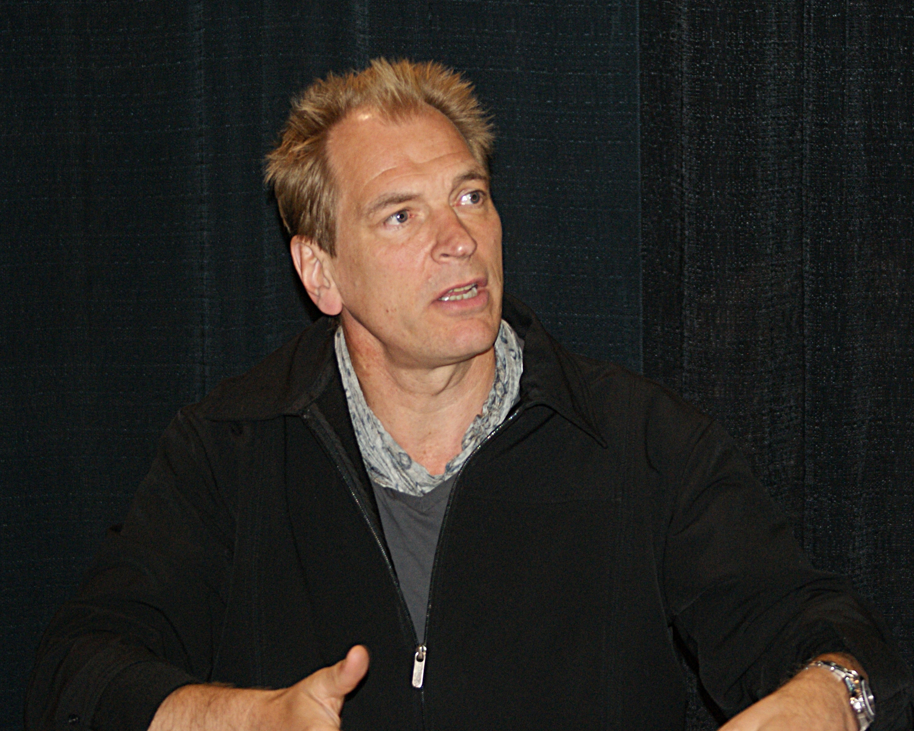 Julian Sands, born 4 January 1958 in Otley, Yorkshire, is an English actor who is known for his roles in the the films The Killing Fields, Warlock, A Room with a View, Arachnophobia, Vatel, and as Jor-El in the television series Smallville. Photo was taken at the Calgary Comic & Entertainment Expo (BMO Centre, Calgary, Alberta, Canada).